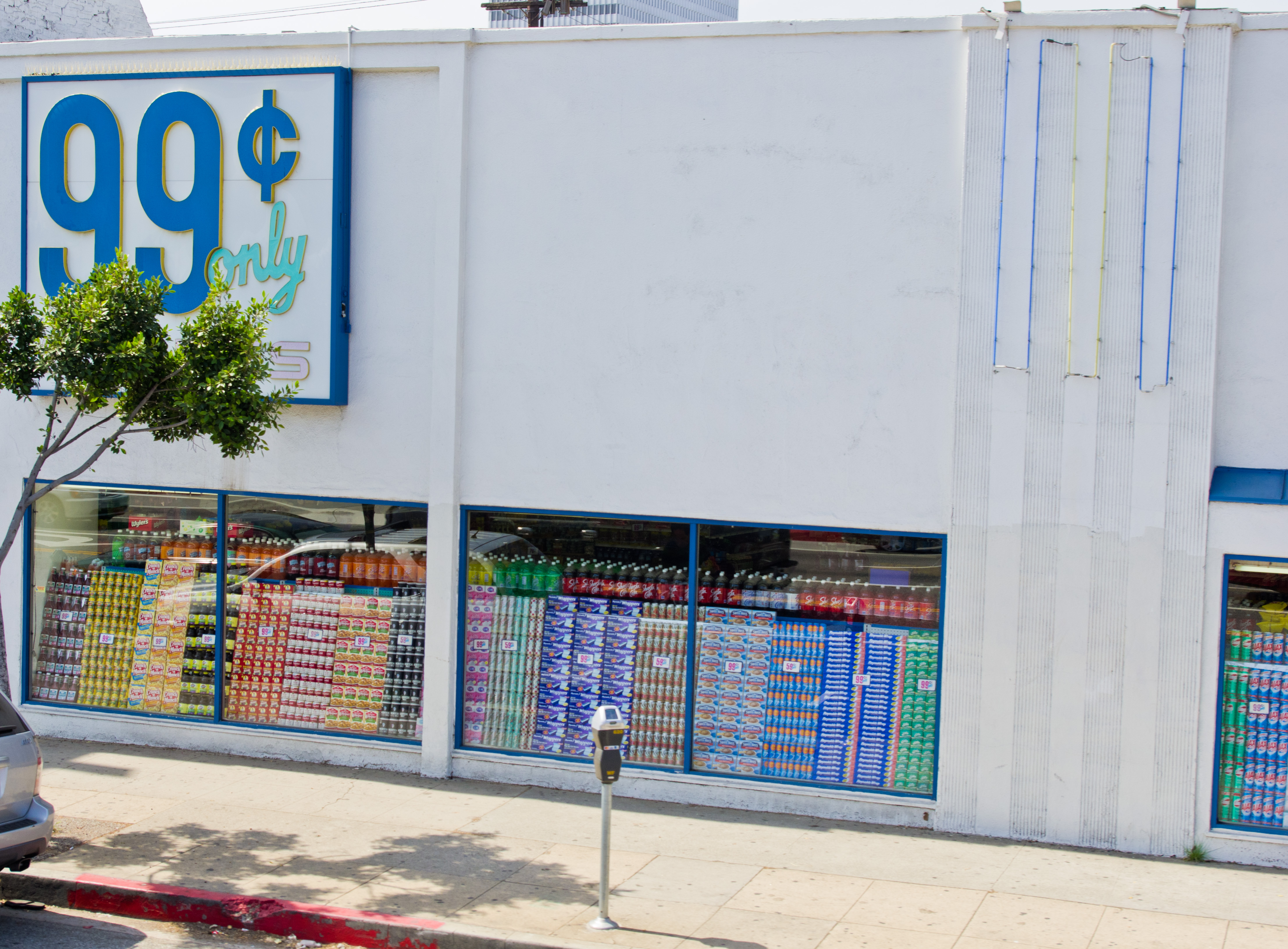 Variety store in Los Angeles